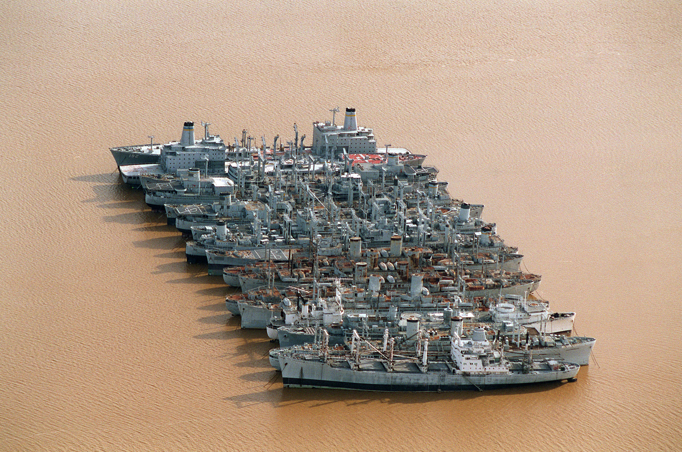 Aerial view of Unit 7 of the Reserve Fleet moored on the James River near Fort Eustis, Virginia (USA), on 28 January 1996. From bottom to top: an unidentified cargo ship (AK) Santa Cruz USS Vulcan (AR-5), USNS Redstone (T-AGM-20), two unidentified troop ships (AP), USNS Gen. N.M. Walter (T-AP-125), barracks ship Gen. Wm. O. Darby (IX-510), fleet oiler USNS Waccamaw (T-AO-109), USS Canisteo (AO-99), USS Caloosahatchee (AO-98), USNS Mississinewa (T-AO-144), USNS Pawcatuck (T-AO-108), USNS Truckee (T-AO-147), USNS Neosho (T-AO-143), USNS Benjamin Isherwood (T-AO-191) and Henry Eckford (T-AO-192). These two last oilers were both laid up incomplete.